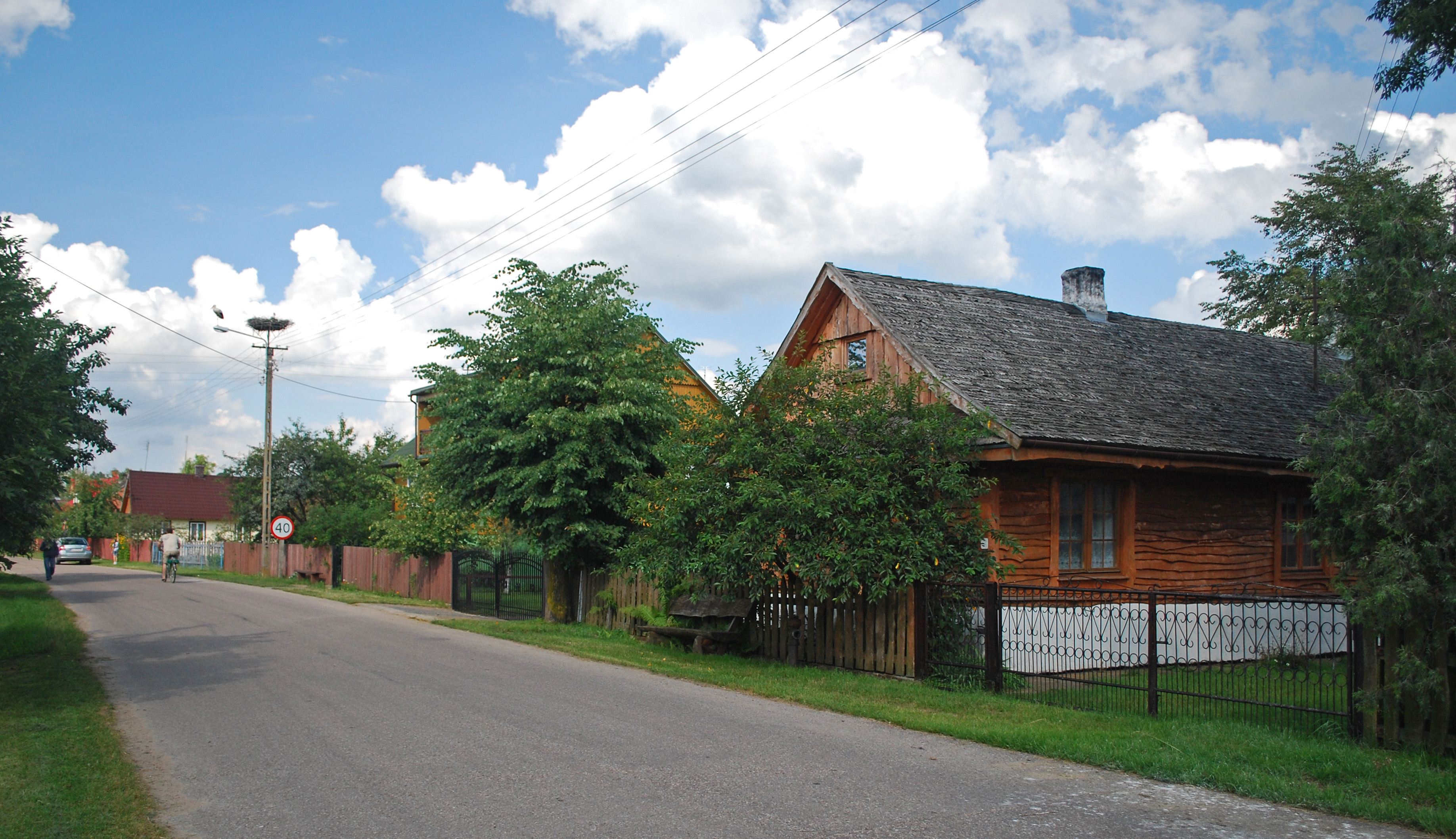 This photo from Podlaskie Voievodeship was taken during Polish Wikiexpedition 2009 set up by Wikimedia Polska Association. The making of this document was supported by Wikimedia Polska. Ulica w Koryciskach